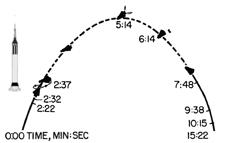 Simplified and more user friendly version of File:Mr3-flight-timeline-simple.png